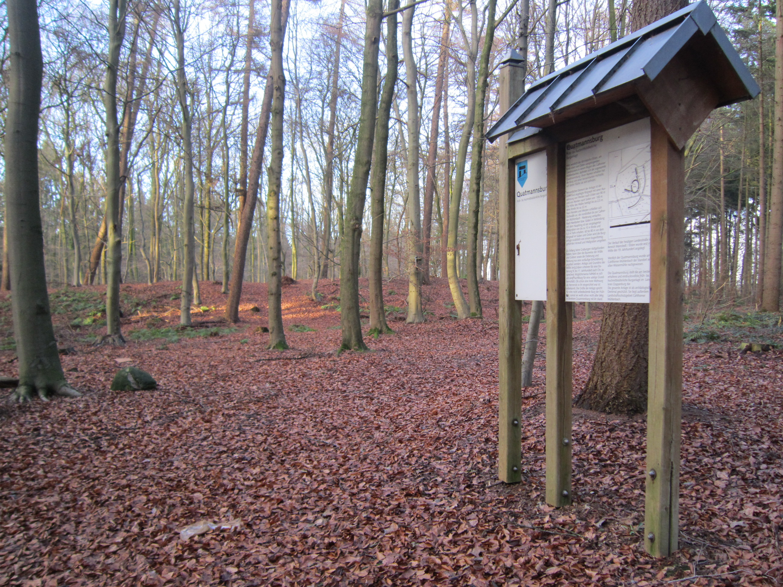 Quatmannsburg, an early historical hill fort in Lower Saxony (in Elsten, community of Cappeln, district of Cloppenburg)